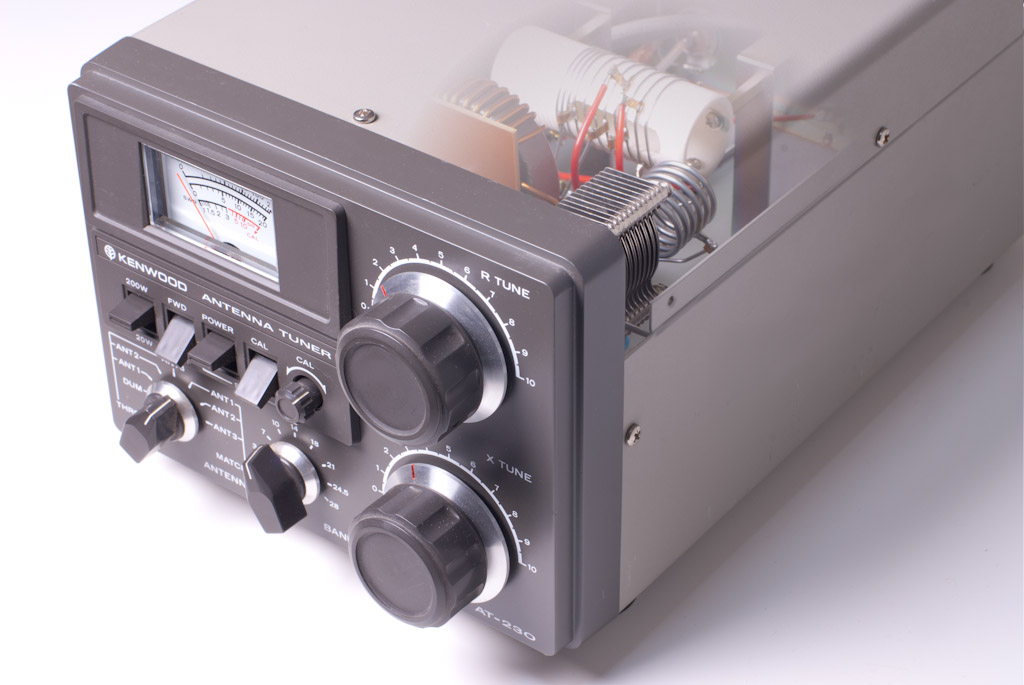 This picture is my own work and was taken by me on December 25, 2011 using a Nikon D200